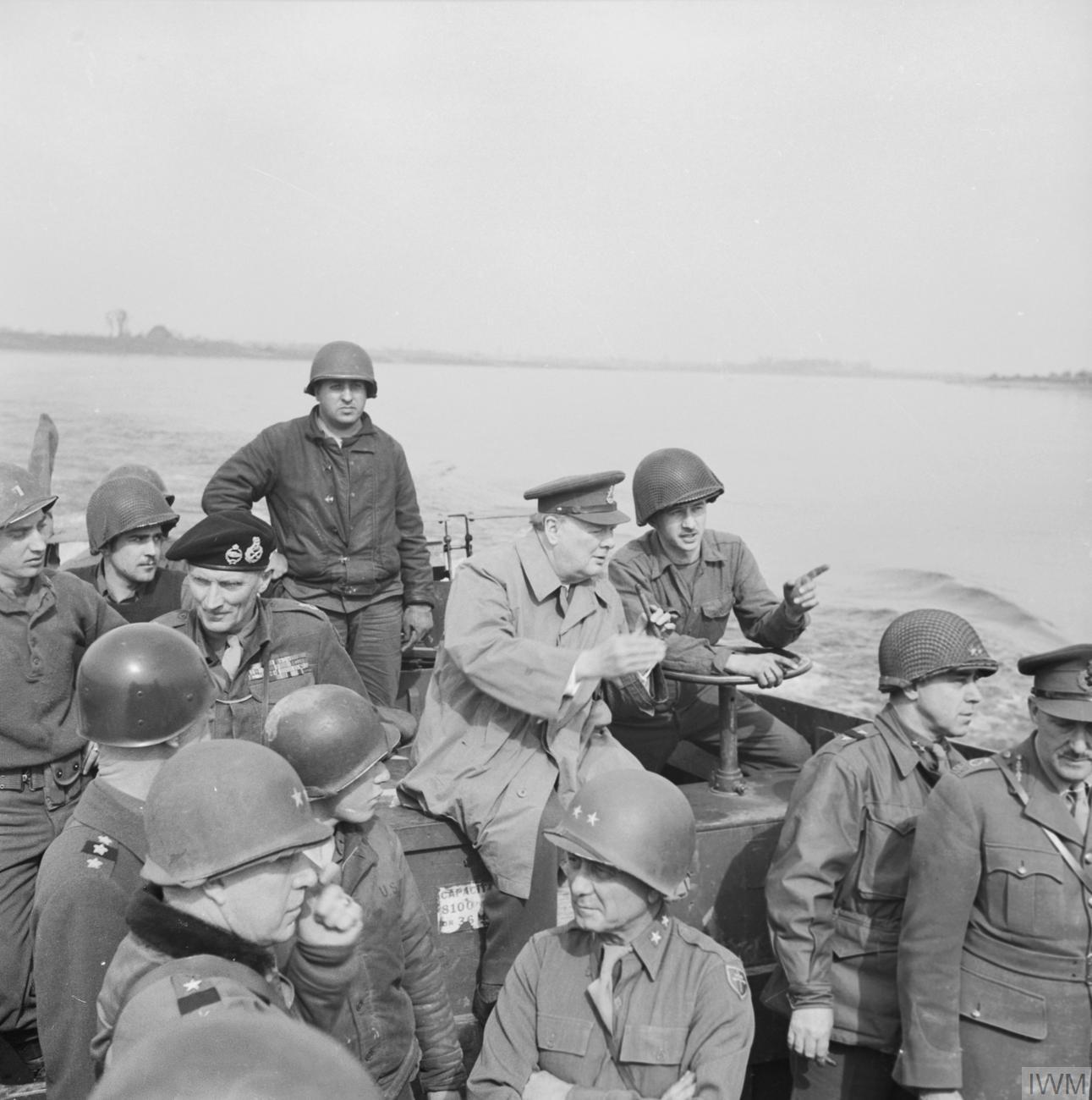 Prime Minister Winston Churchill Crosses the River Rhine, Germany 1945 The Prime Minister Winston Churchill crosses the River Rhine to the east bank, south of Wesel, in an American Landing Craft Vehicle Personnel (or Higgins boat) with Field Marshal Sir Bernard Montgomery, Field Marshal Sir Alan Brooke and US General William Simpson on 25 March 1945.